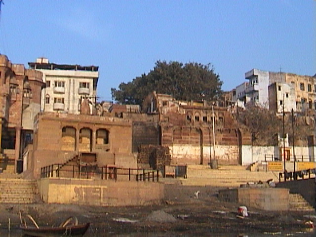 Hindu culture, have attributed supreme importance to the preservation of tradition Classical civilizations, and especially the Indian one, have attributed supreme importance to the preservation of tradition. Its central idea was that social institutions, scientific knowledge and technological applications need to use "heritage" as a "resource". Using contemporary language, we would say that ancient Indians considered, as social resources, both economic assets (like natural resources and their exploitation structure) and factors promoting social integration (like institutions for preserving knowledge and maintaining civil order). Ethics considered that what had been inherited should not be consumed, but should be handed over, possibly enriched, to successive generations. This was a moral imperative for all, except in the final life stage of sannyasa